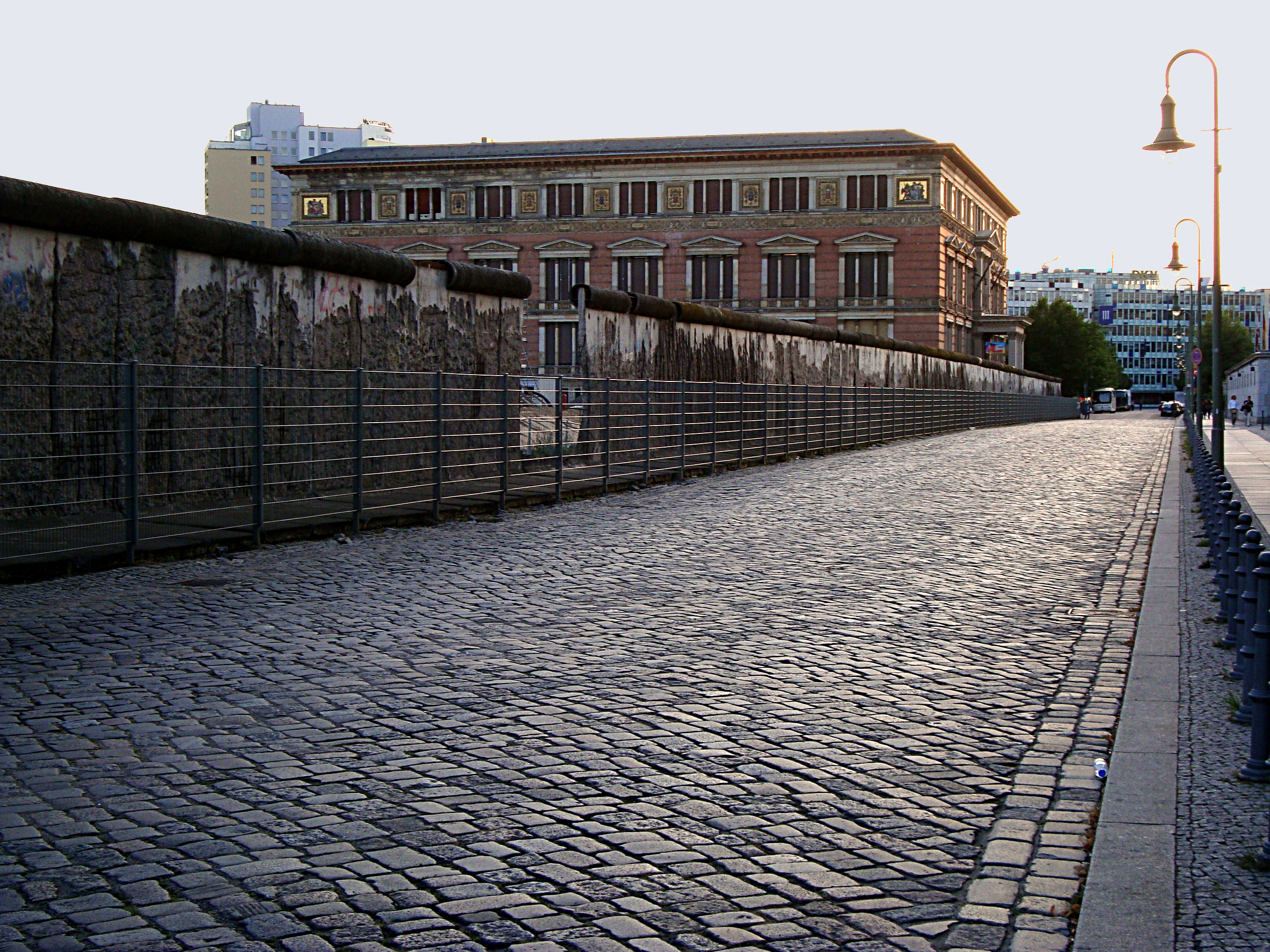 The Martin-Gropius-Bau and remaining parts of the Berlin Wall.